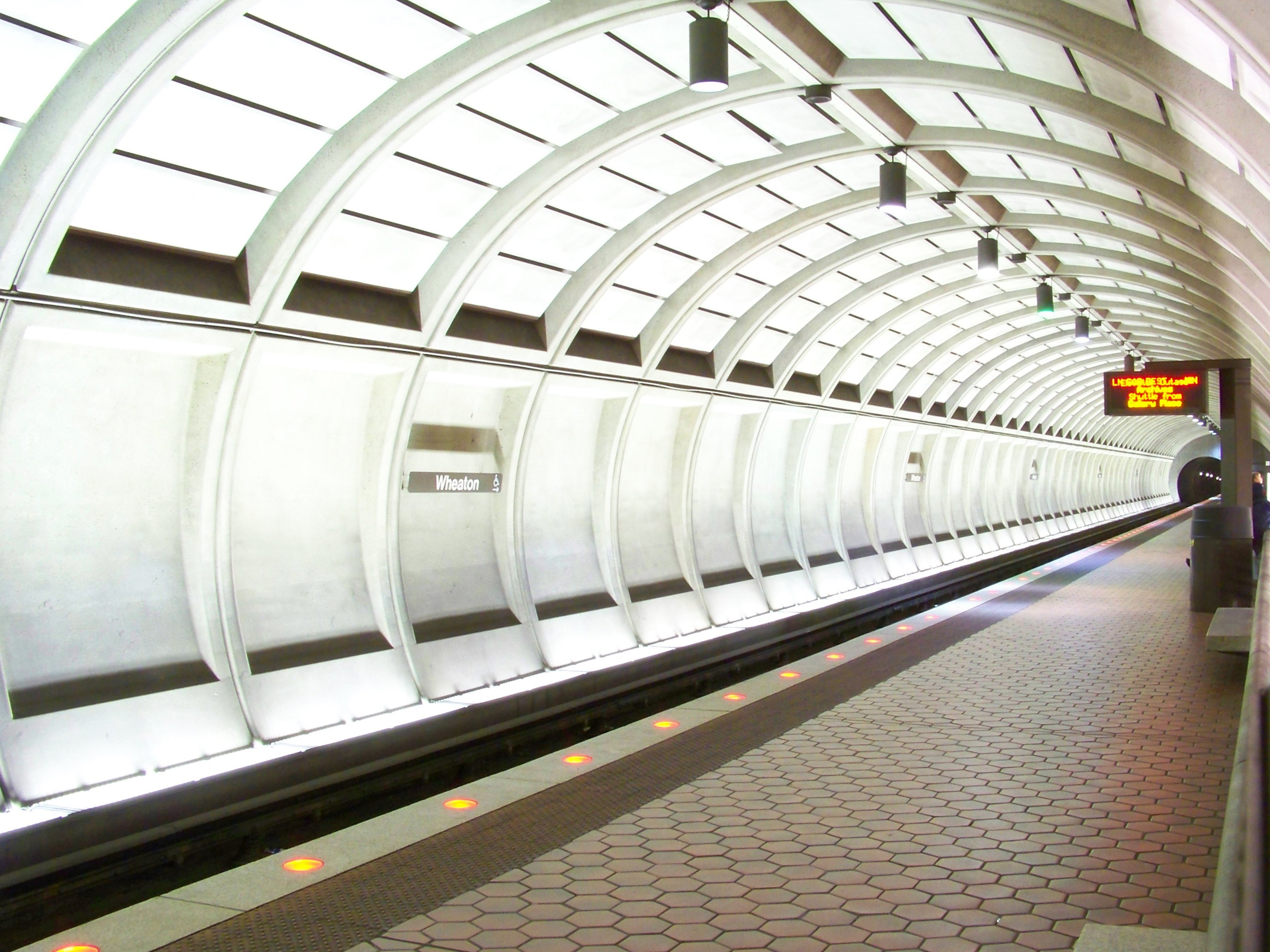 Long-exposure photograph of the inbound platform at Wheaton station, part of the Washington Metro system.